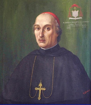 Kardinal Carlo Francesco Maria Caselli (1740-1828)